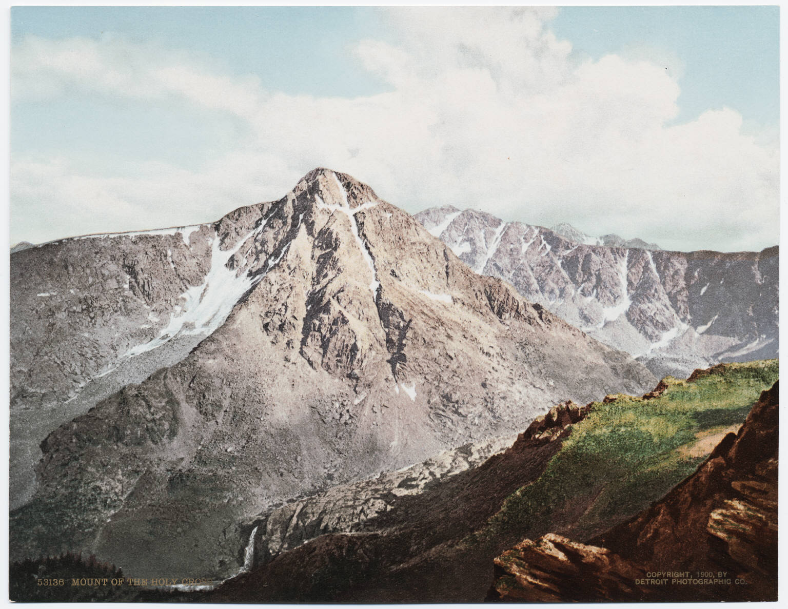 A photochrom postcard published by the Detroit Photographic Company.